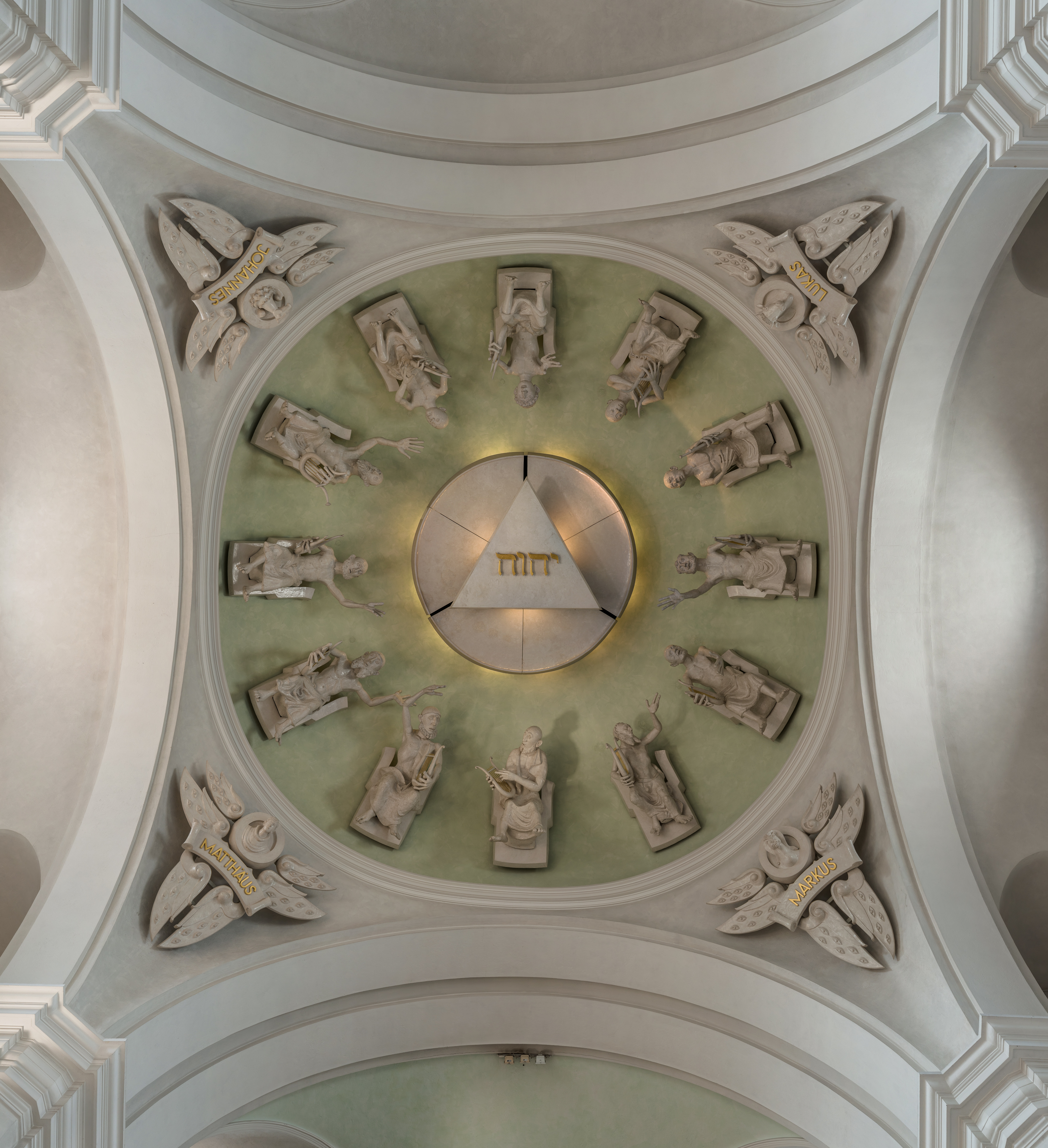 The ceiling artwork of St. Michael, WürzburgThis is a photograph of an architectural monument.